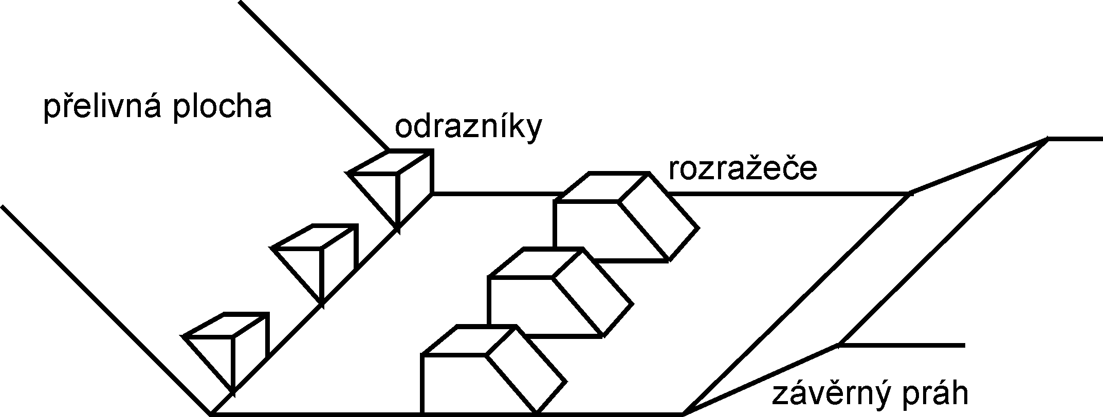 stilling basin appurtenances